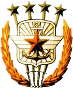 Insignia of Republic of Korea Armed Forces Joint Chiefs of Staff